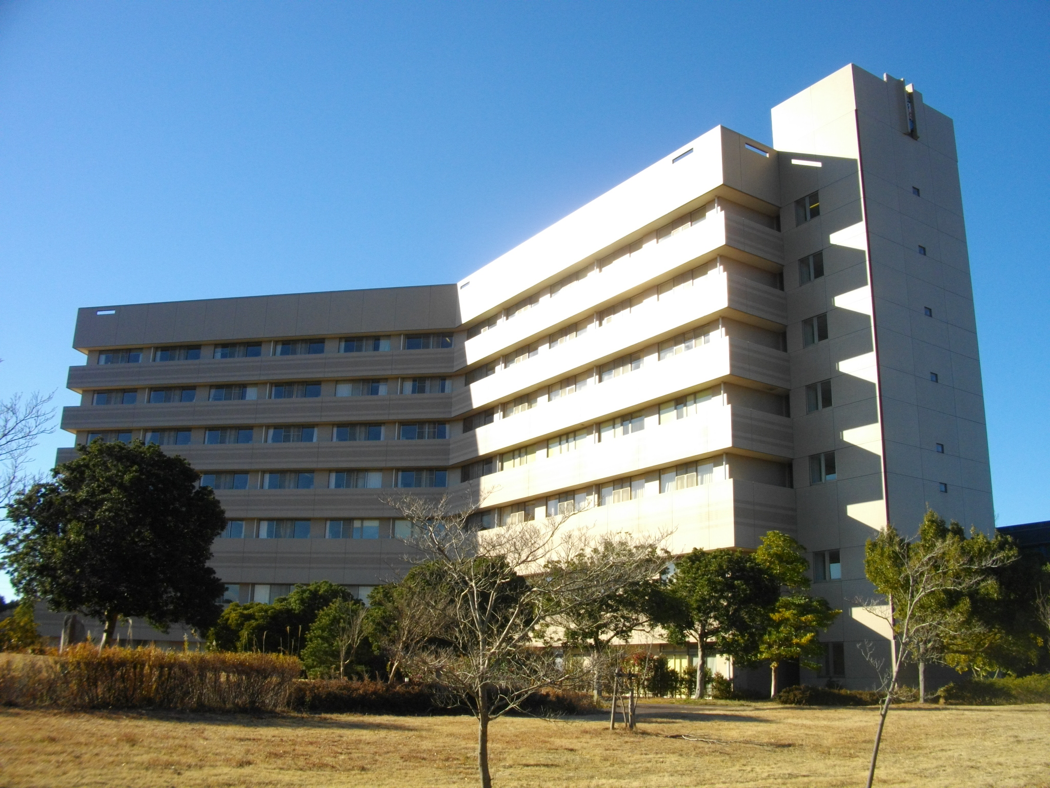 Nippon Medical School Chiba Hokusou Hospital